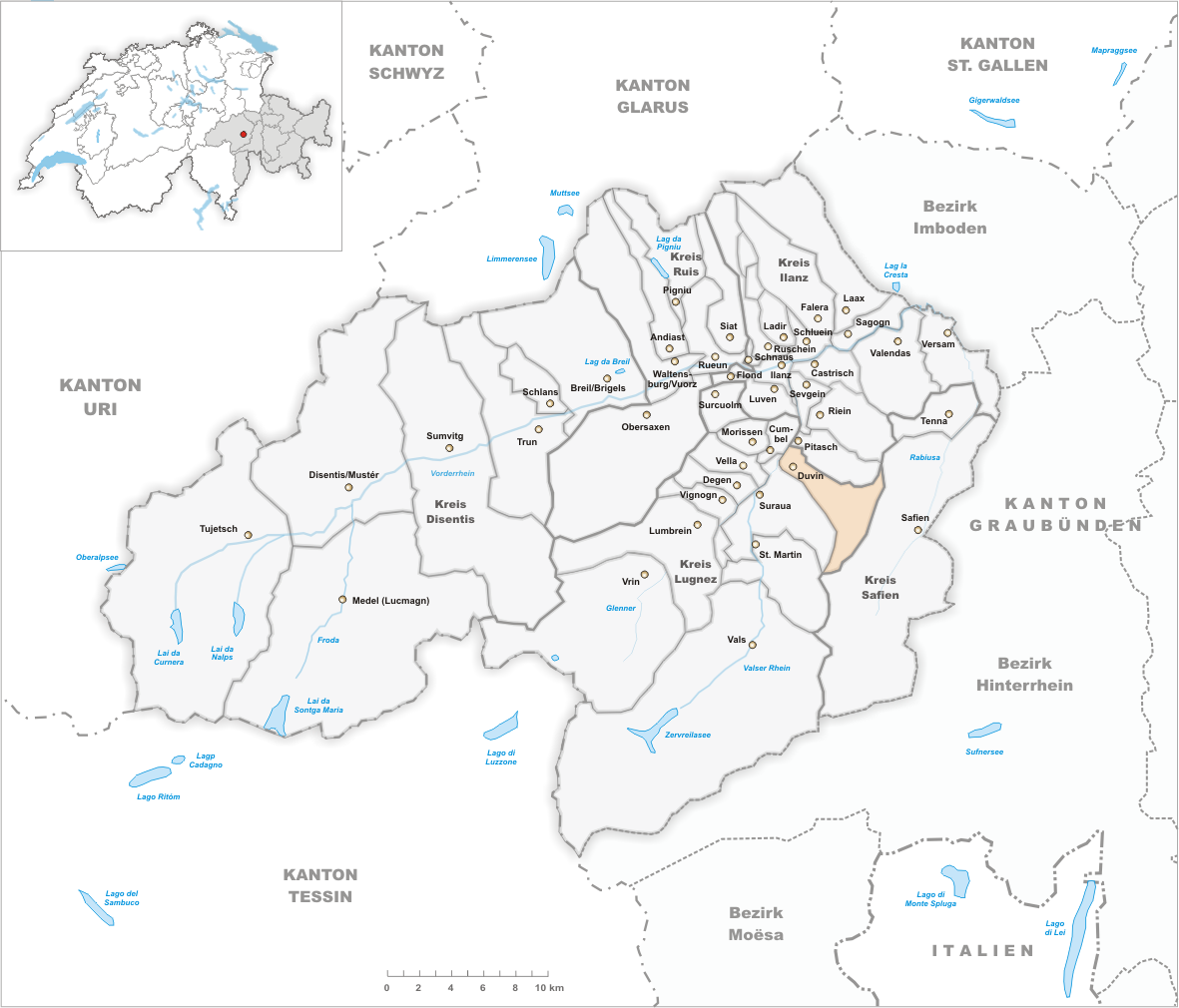 Municipality Duvin